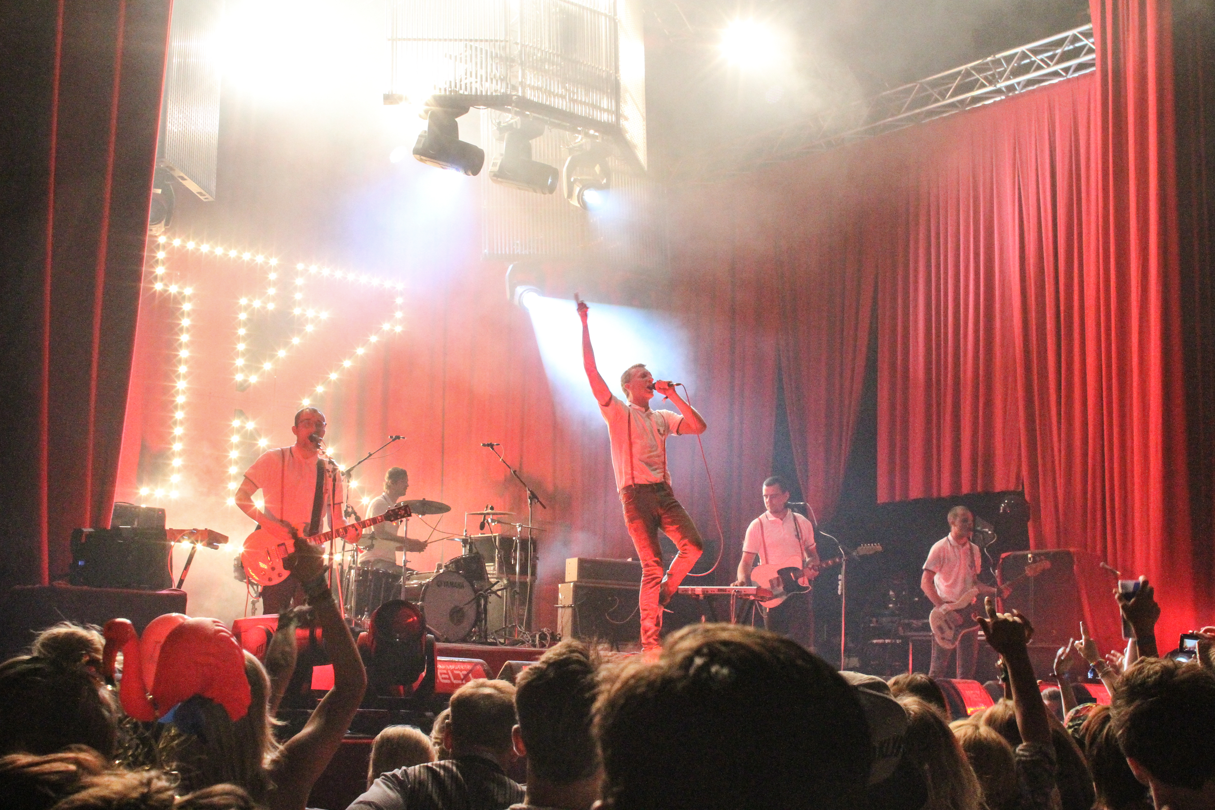 Kraftklub performing at Melt! Festival 2013